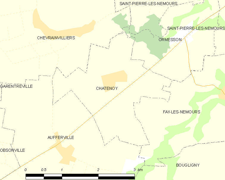 Map of French municipality Châtenoy